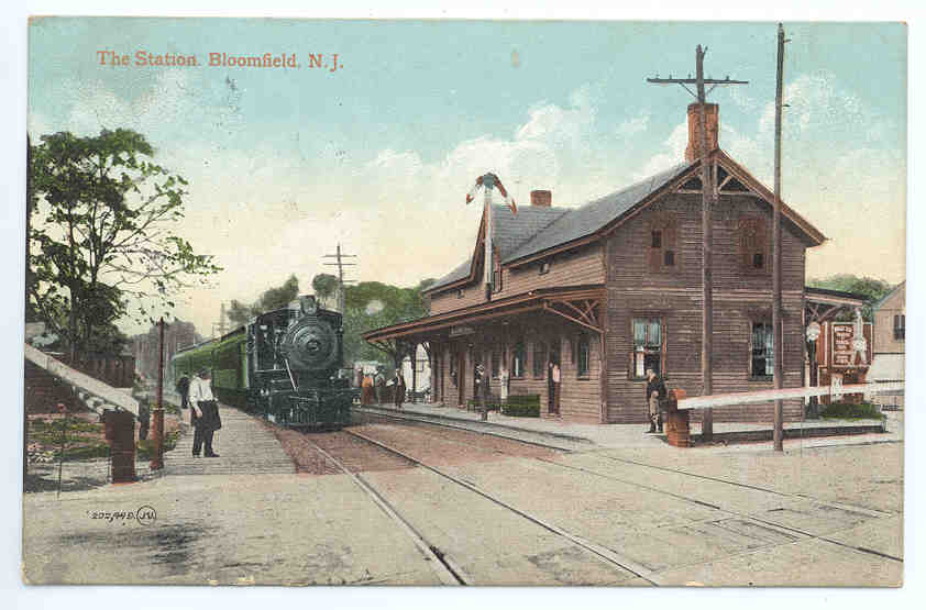 The former Bloomfield, New Jersey station for the Delaware, Lackawanna and Western Railroad before the tracks were elevated through Bloomfield in 1912.